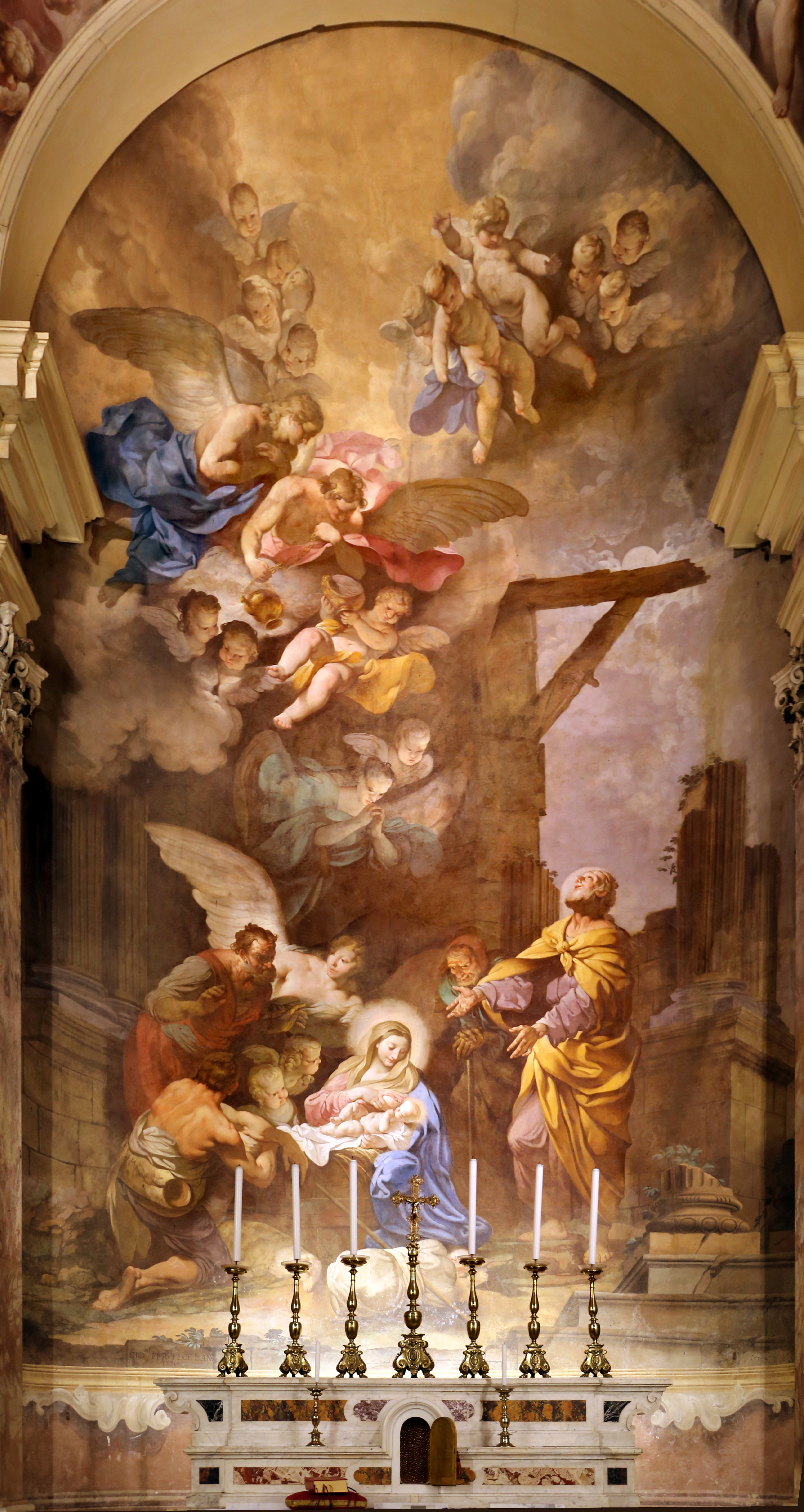 San Salvatore al Vescovo - Interior - Frescos by Giovanni Domenico Ferretti